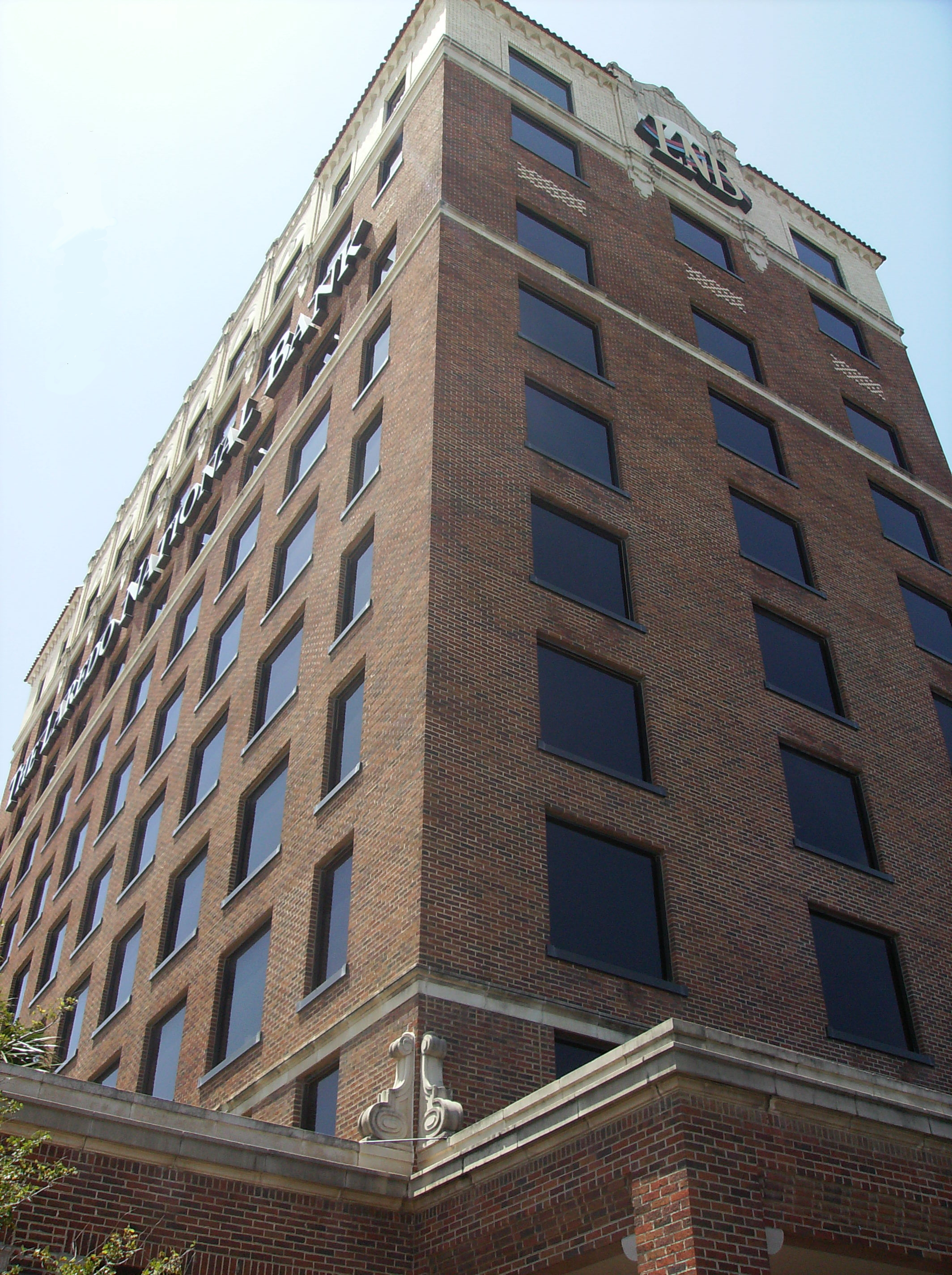 Laredo National Bank headquarters building formally Plaza Hotel in Laredo